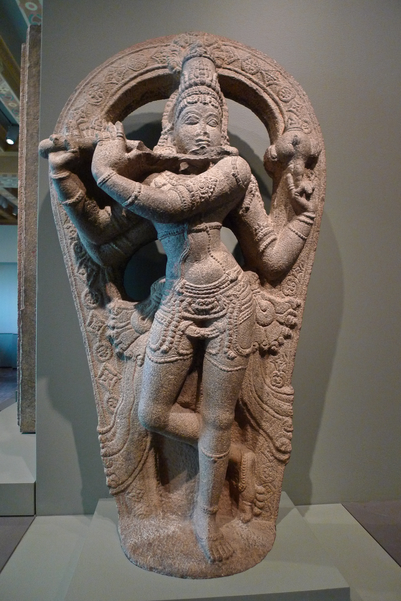 From the permanent collection of the Asian Art Museum in San Francisco.